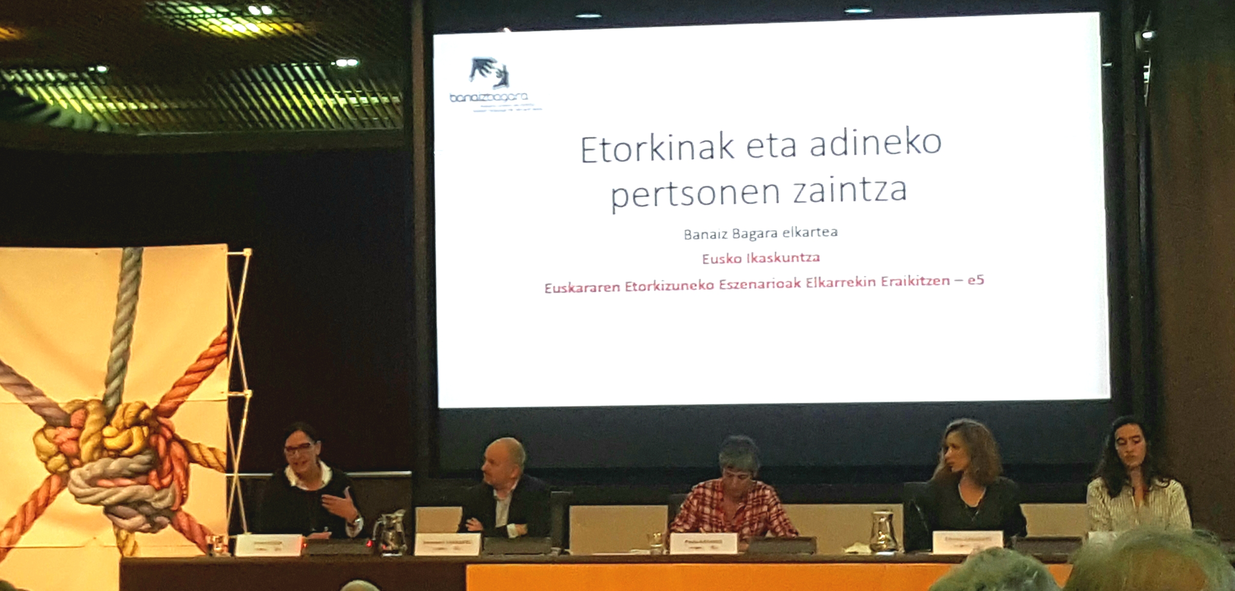 Petra Elser, invited speaker on 'Inmigrants and care of elder people' in the congress 'Building together future scenarios for Basque language' organized by Eusko Ikaskuntza in 2018.